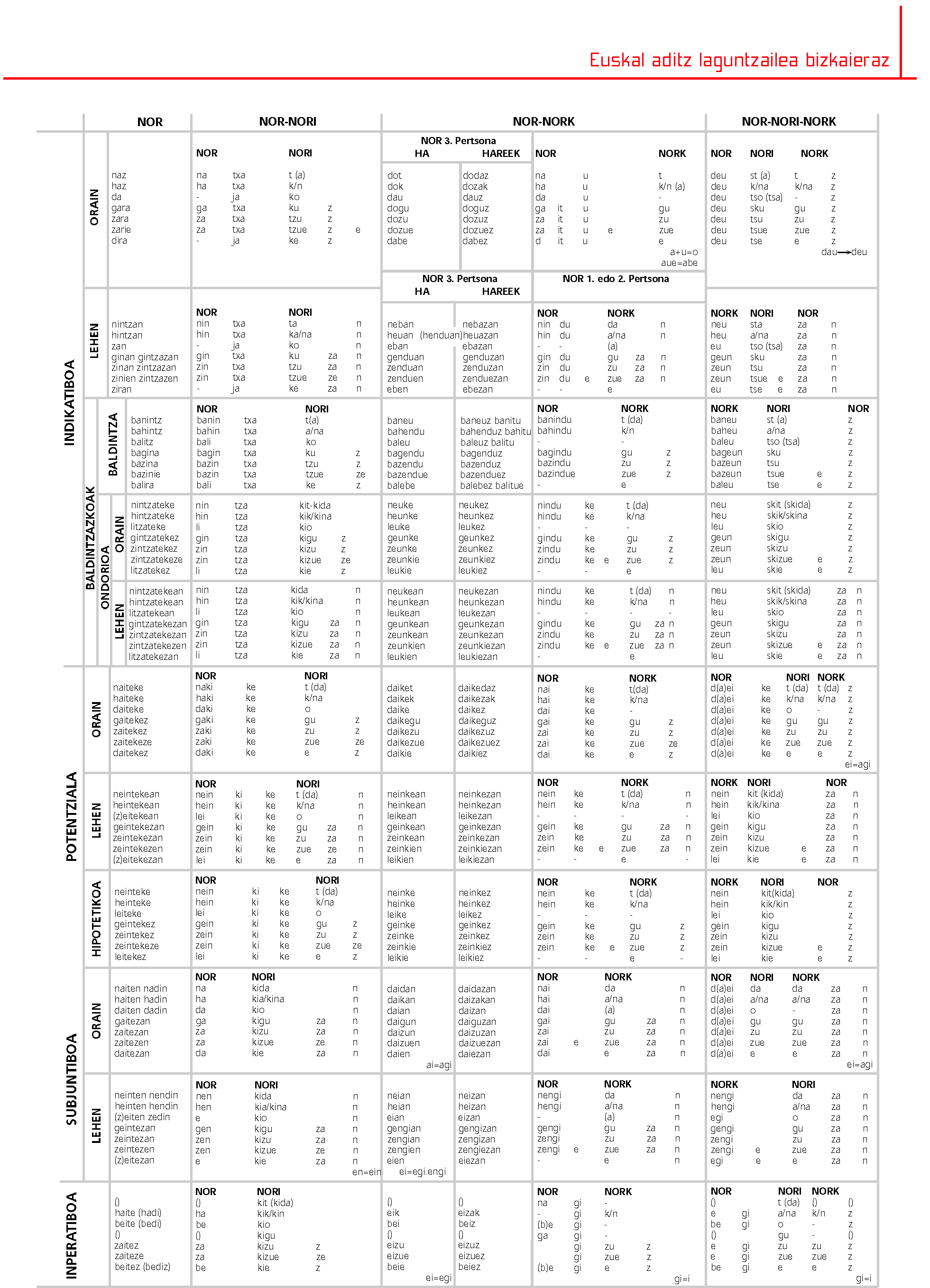 Nor Nori Nork verb table of the basque dialect biscayan